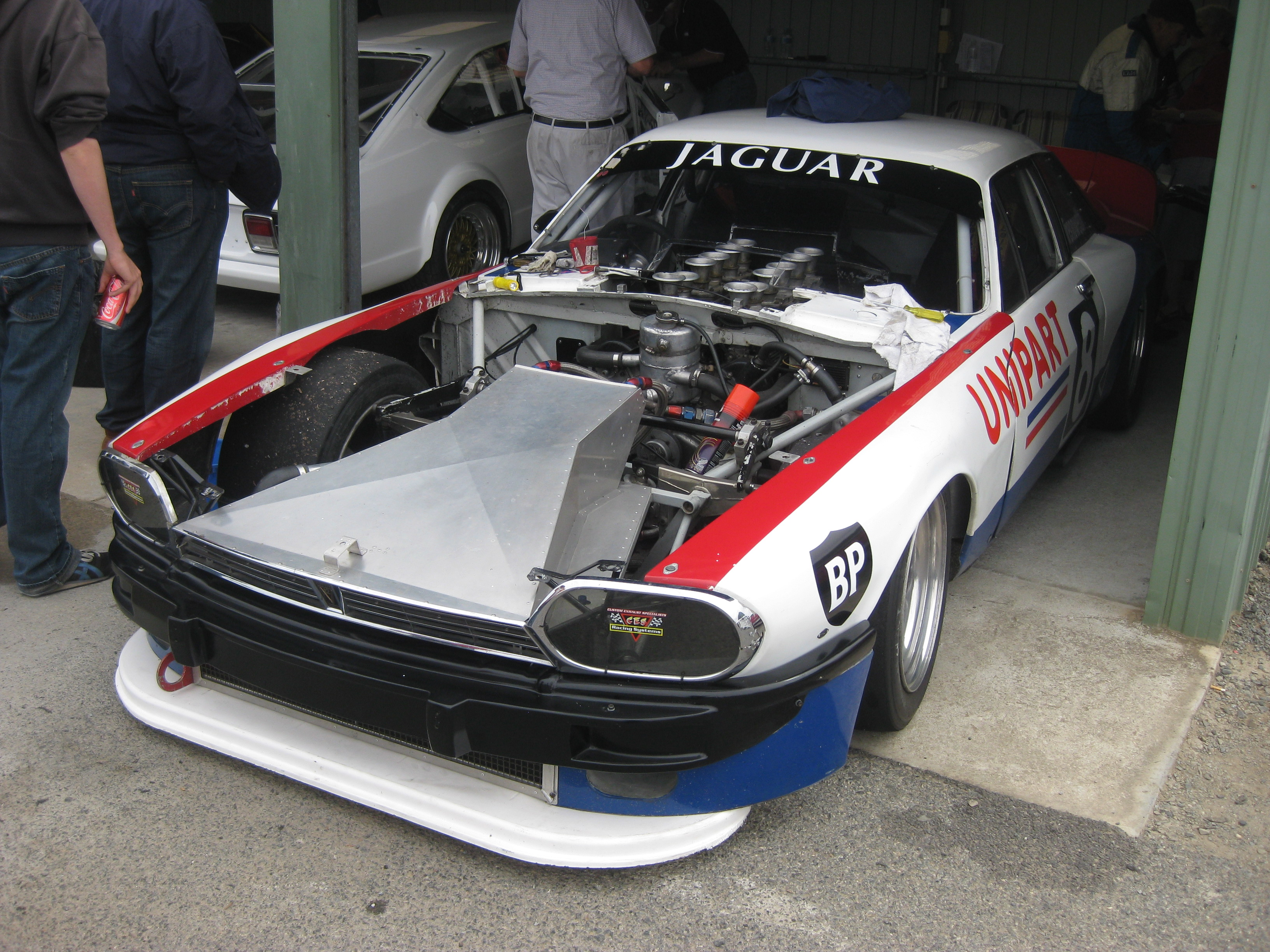 The Jaguar XJ-S of Mark Trenoweth at Mallala Motor Sport Park on 30 March 2013. The car was competing in the Group U category for historic Sports Sedans. The Jaguar was built by John McCormack, who drove the car to 4th place in the 1980 Australian Sports Sedan Championship.